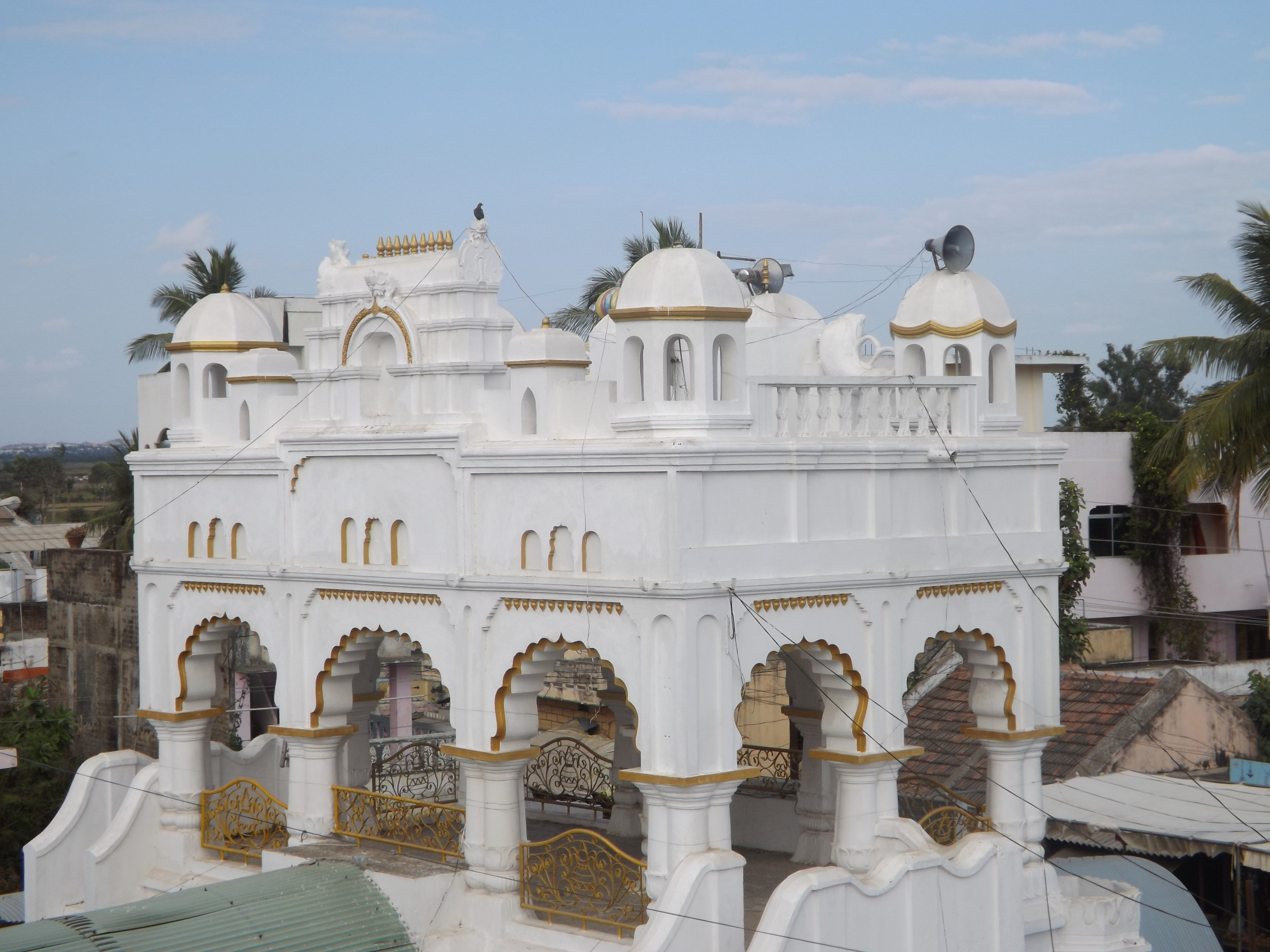 Arasavilli Sri Suryanarayanamurty Remple of Srikakulam. Andhrapradesh